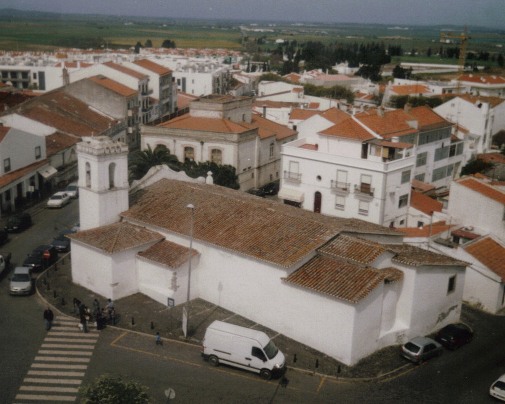 Saint Amaro Church, Beja, Portugal.